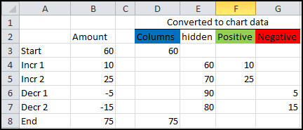 Screen shot of data for a waterfall chart